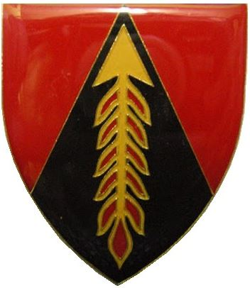 SADF Regiment Oos Transvaal emblem